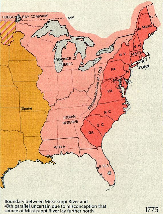 Eastern North America in 1775: The map shows part of the British Province of Quebec, the British thirteen colonies on the Atlantic coast, the interior Indian Reserve, and parts of New Spain. Some colonies claimed land further west, but only the areas shown in red were legally open to settlement by European-Americans, due to the Royal Proclamation of 1763). East Florida and West Florida had been acquired by Britain from Spain, and did not join the American Revolution the next year.